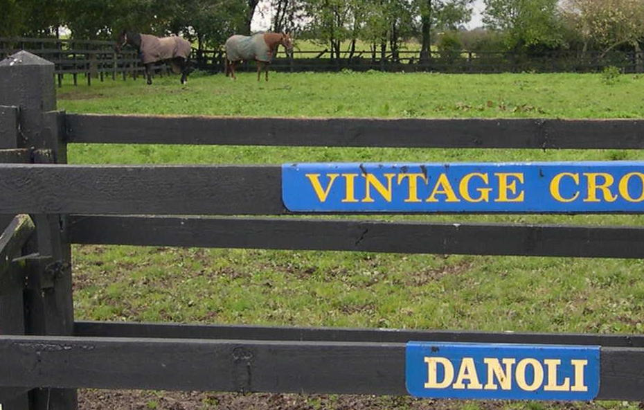 The irony is that I had to "crop" the picture as the name on the gate "Vintage Crop" had been defaced to read Vintage Cr*p! Credit: A Peter Clarke image